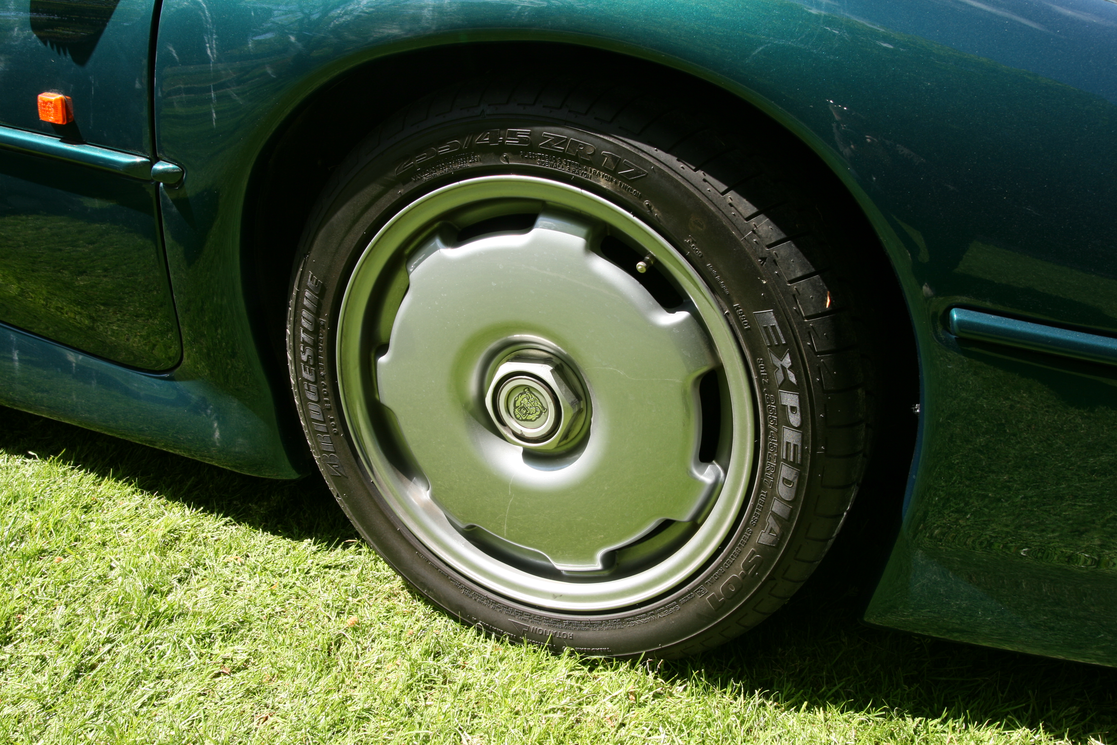 Close-up view of the alloy wheels found on the Jaguar XJ220. This vehicle is a 1994 XJ220 parked at the Sofiero Classic car show at Sofiero castle in Helsingborg, Sweden.